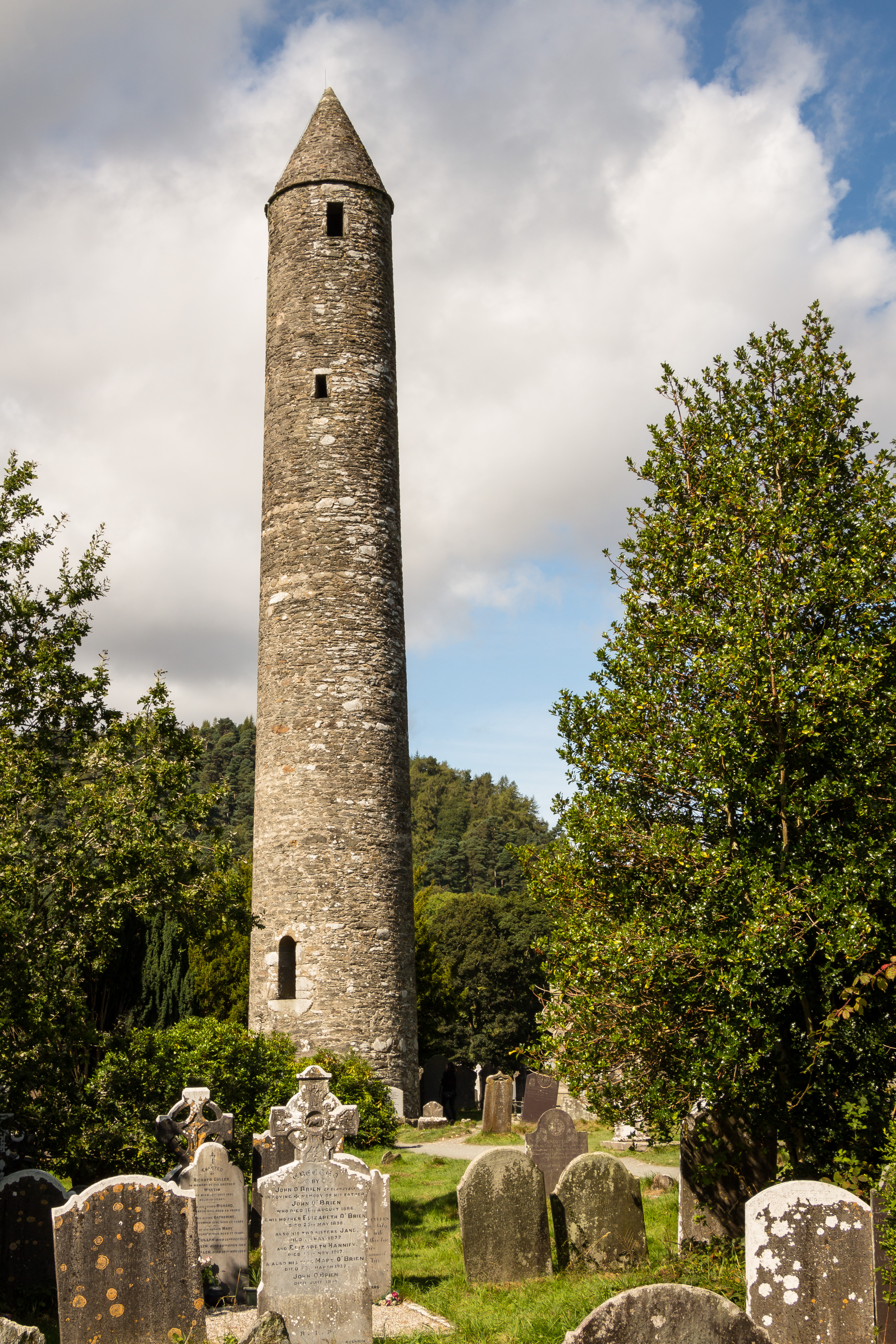 Tombstones and the Round Tower at Glendalough, County Wicklow. Wikidata has entry Q691153 with data related to this item.